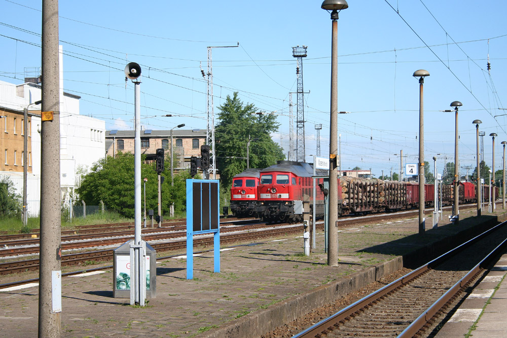 The train station of Waren (Müritz), Germany